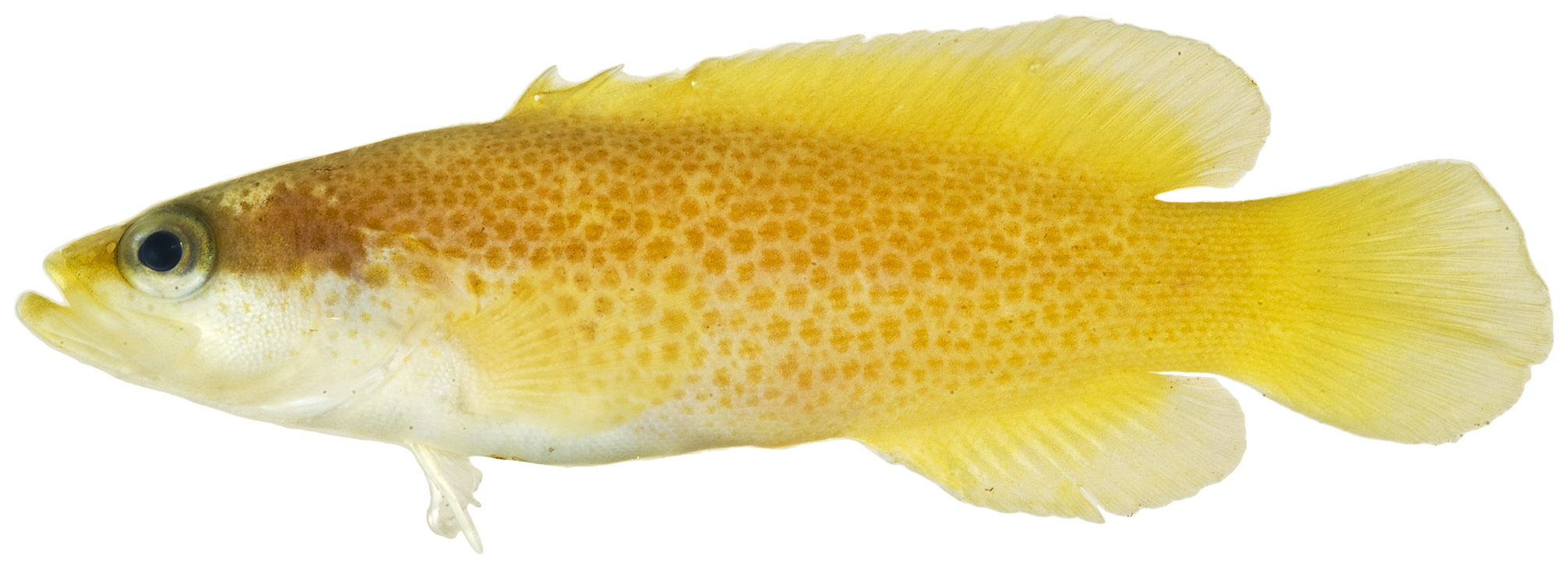 Rypticus bistripinus (Mitchill, 1818) —freckled soapfish, 46.2 mm SL. Photo by JT Williams.